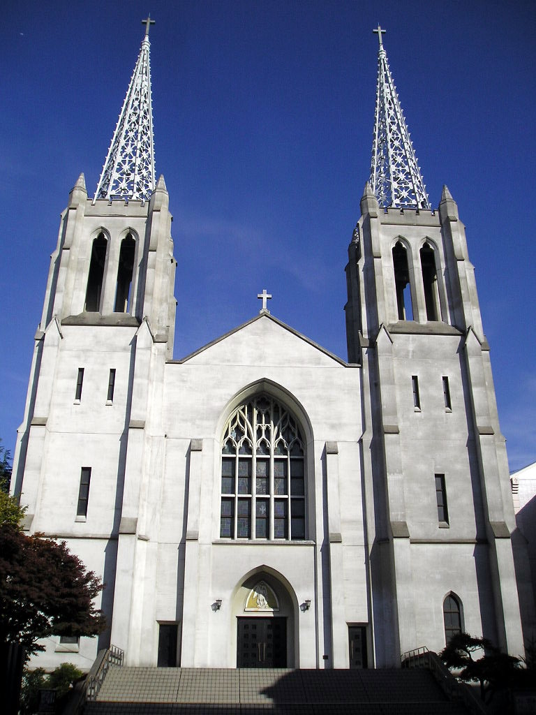 Catholic Nunoike Church, the Cathedral of St. Peter and St. Paul